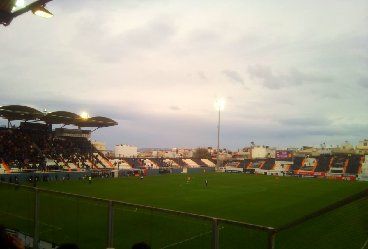 Theodoros Vardinogiannis Stadium after latest renovations, in 2019